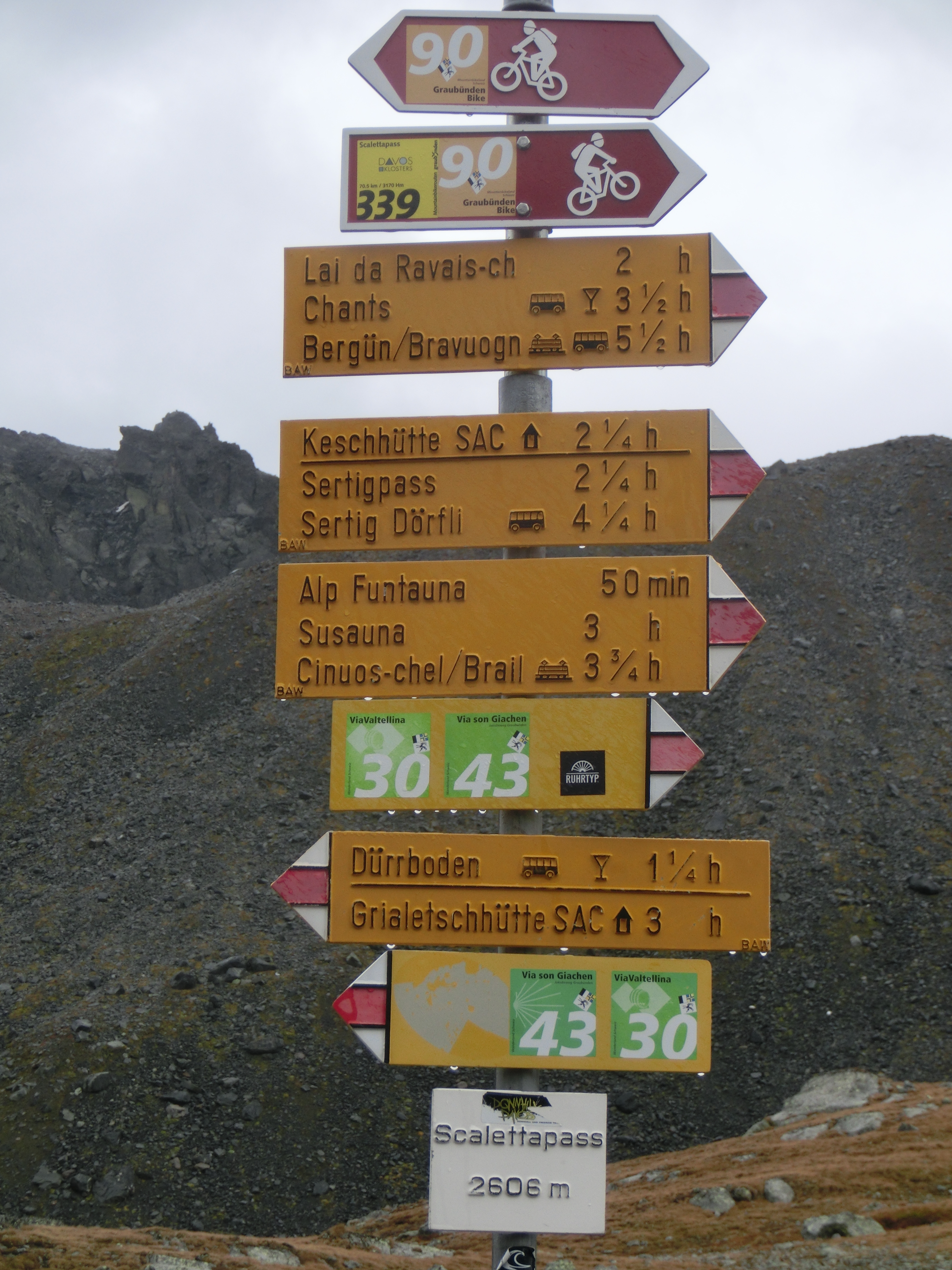 Fingerpost on Scalettapass, Davos, S-chanf, Grison, Switzerland